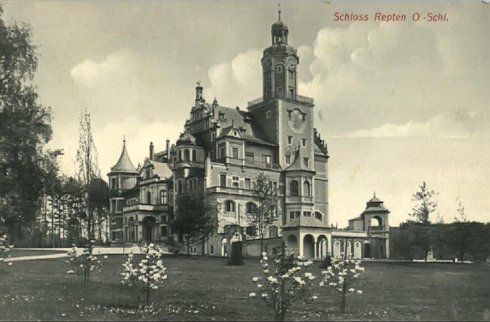 The non-existent palace in the park in Repty Śląskie (Ger. Repten), now part of Tarnowskie Góry, Poland; German postcard.